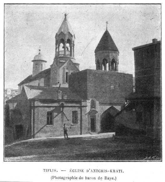 Anchis-Khati church, Tbilisi (Baron de Baye photo)